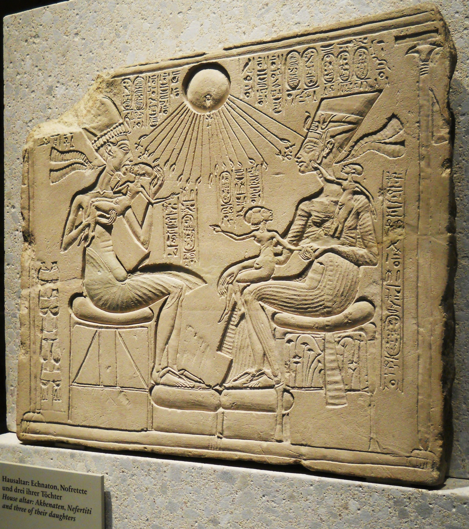 A house altar showing Akhenaten, Nefertiti and three of their daughters. 18th dynasty, reign of Akhenaten